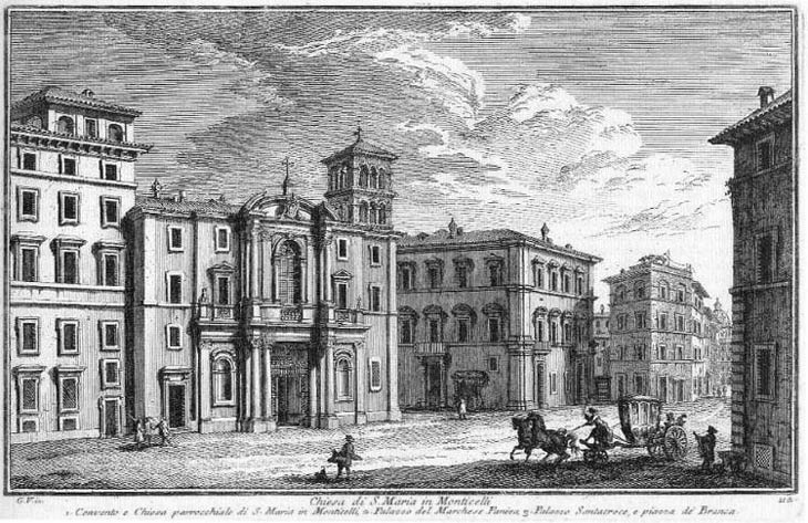 1) S. Maria in Monticelli; 2) Palazzo del Marchese Panizza; 3) Palazzo Santacroce opposite S. Carlo ai Catinari.